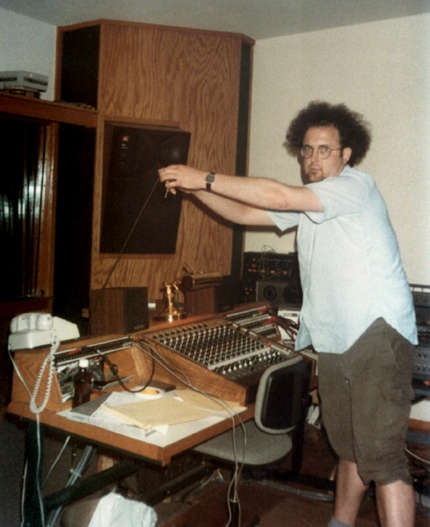 Photo of Steve Fisk taken in 1987 during the Blaze Brigade studio session at Creative Fire studio in Ellensburg, WA.